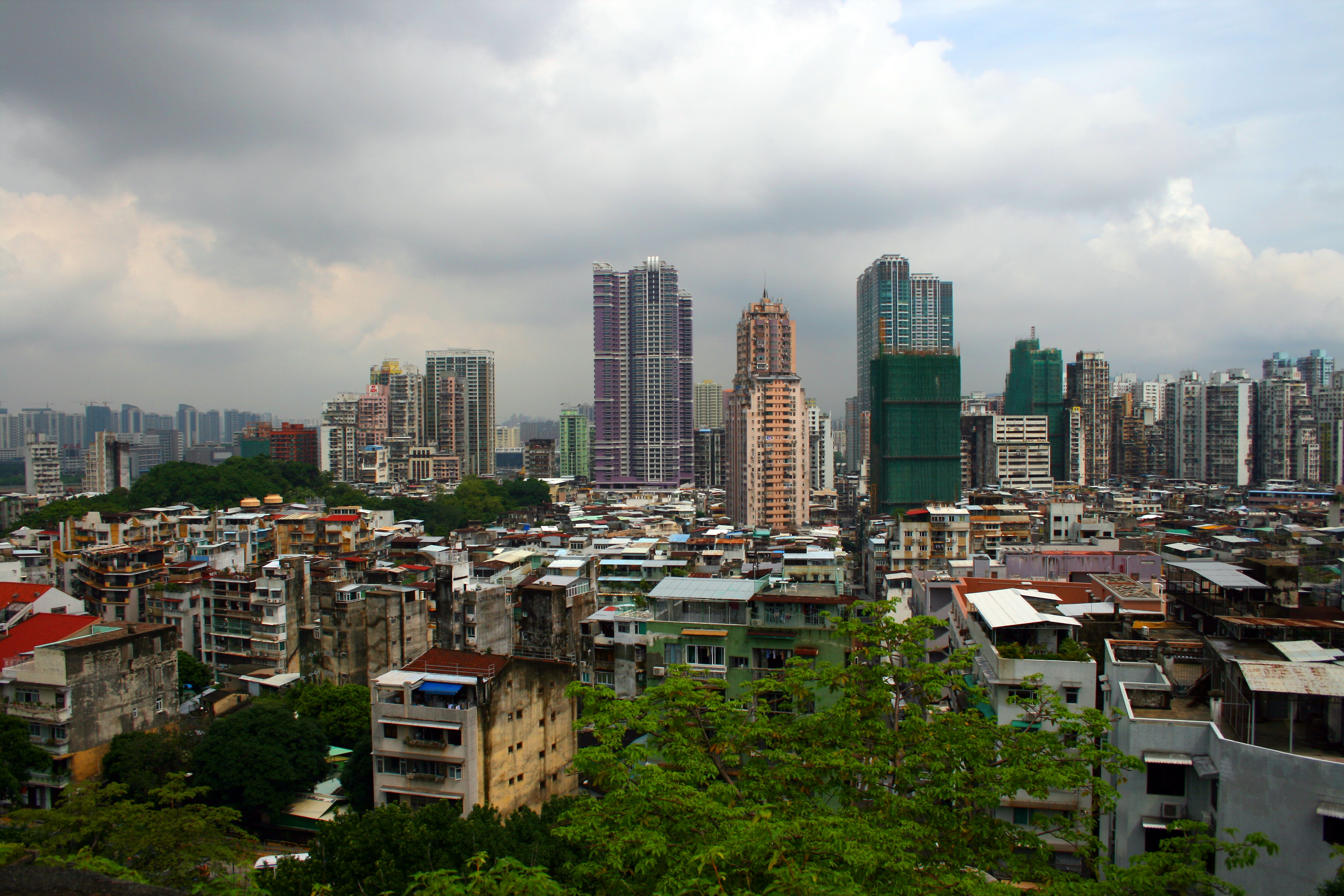 Macau viewed from Macau Museum